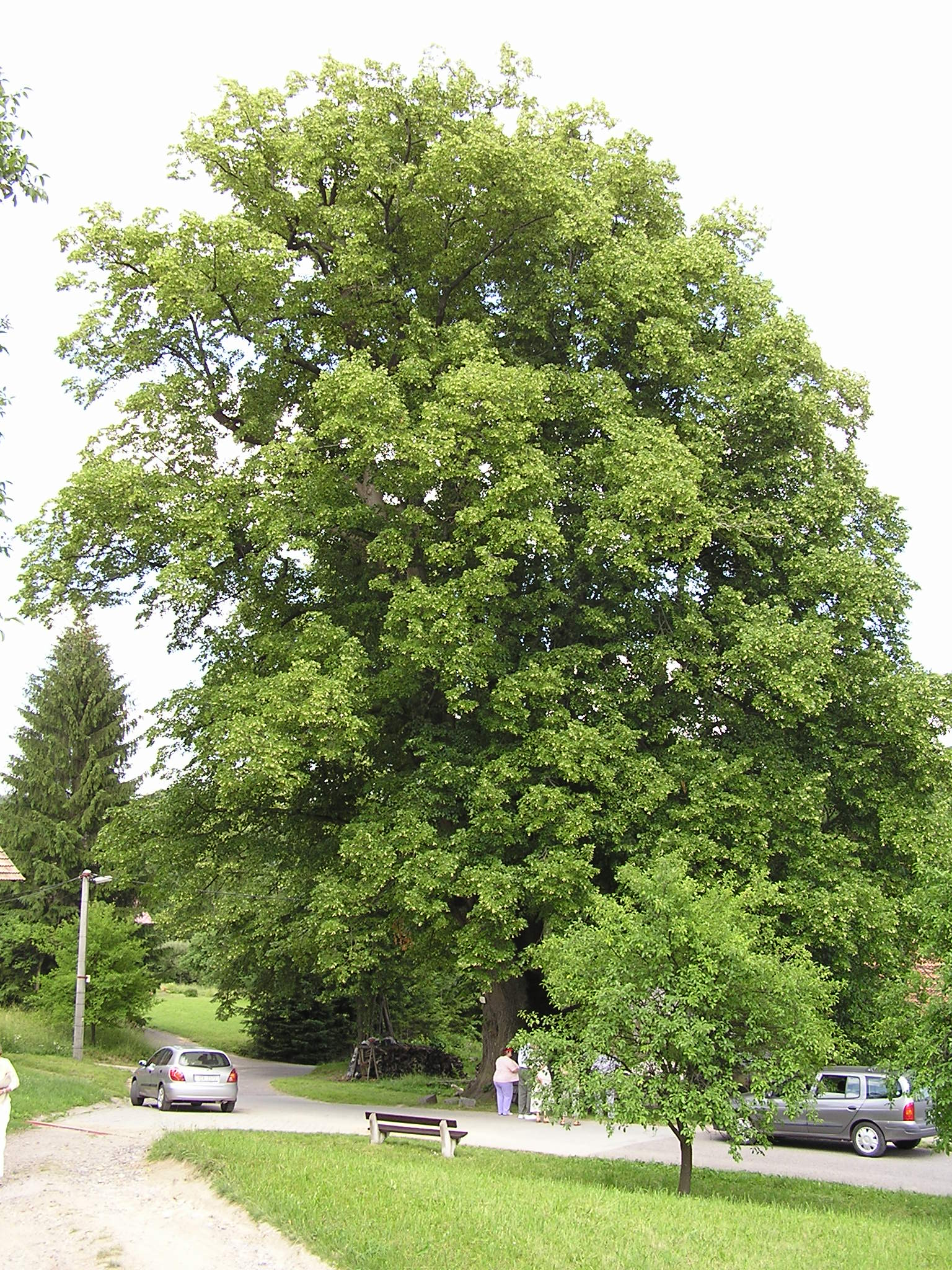 Brethren linden-tree in Kunvald. Height approximately 28.5 m, circumference 7.8 m, estimated age 460 years.